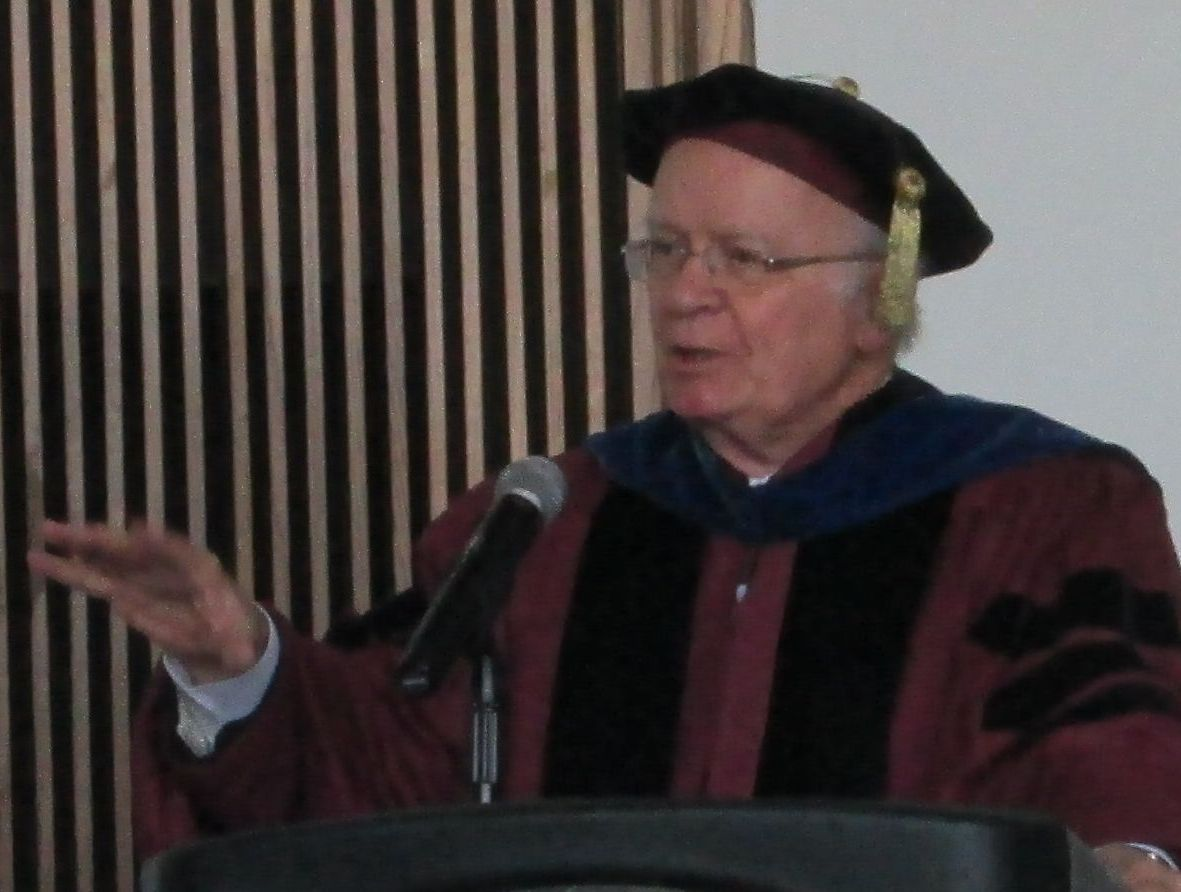 Noted theologian and intellectual Martin E. Marty delivering the commencement address at Shimer College in Chicago on May 4, 2013. Location: Hermann Hall ballroom, Illinois Institute of Technology campus.